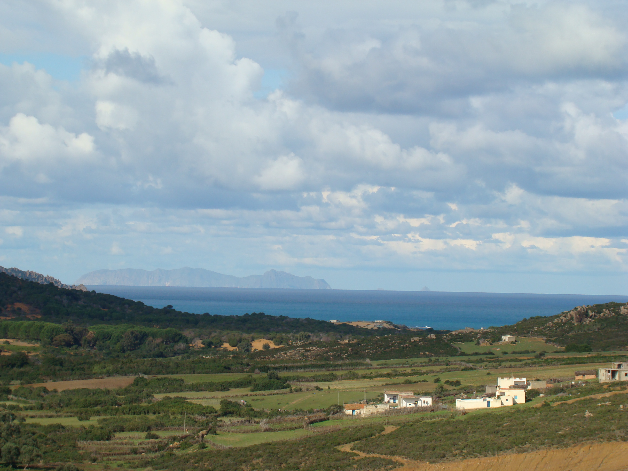 Galite and Les Chiens islands as seen from Cap Serrat, Tunisia